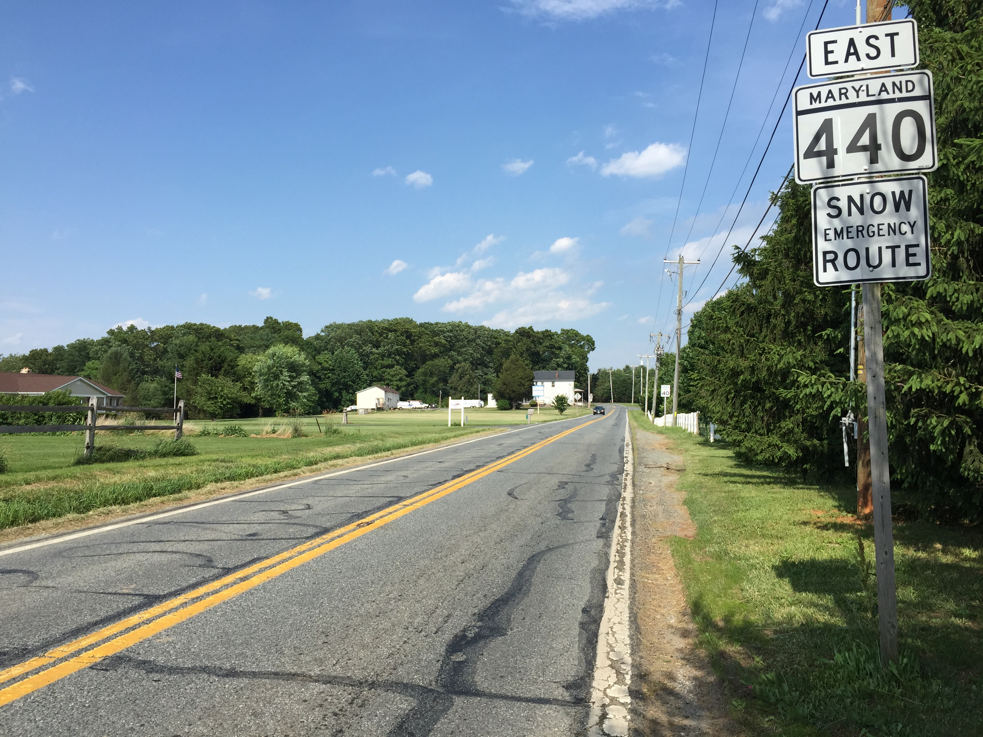 View east along Maryland State Route 440 (Dublin Road) just east of Maryland State Route 543 (Ady Road) in Ady, Harford County, Maryland